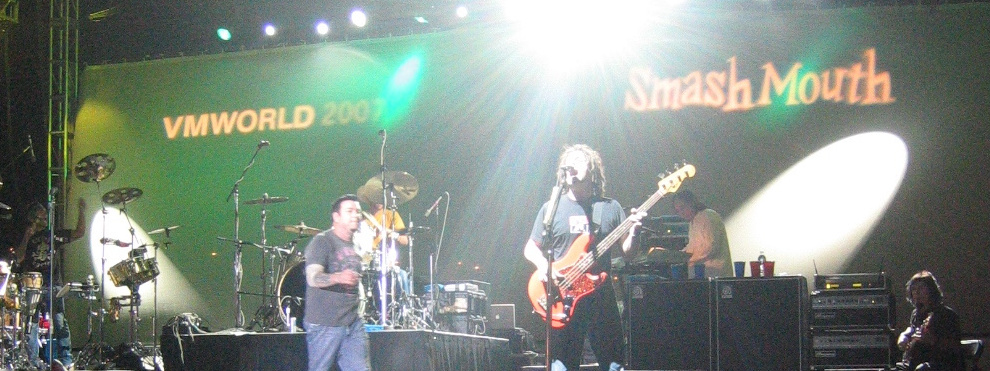 VMware puts on a grand party every year at the VMworld event. This year's big thing was inviting Smash Mouth to come and play.